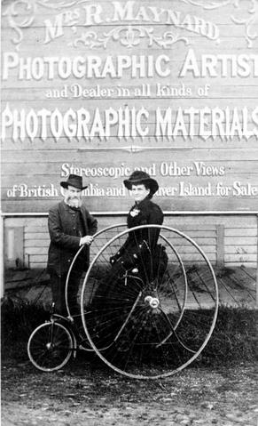 Hannah and Richard Maynard outside of Mrs. Maynards studio